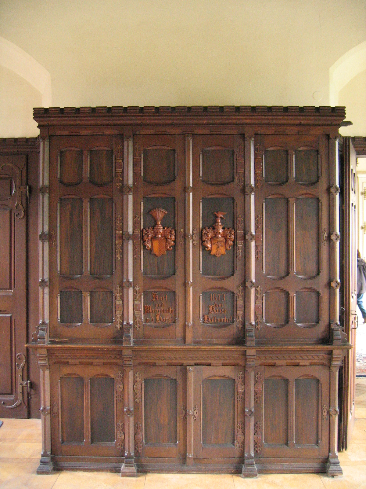 Hollwinkel Castle in Preußisch Oldendorf, District of Minden-Lübbecke, North Rhine-Westphalia, Germany.